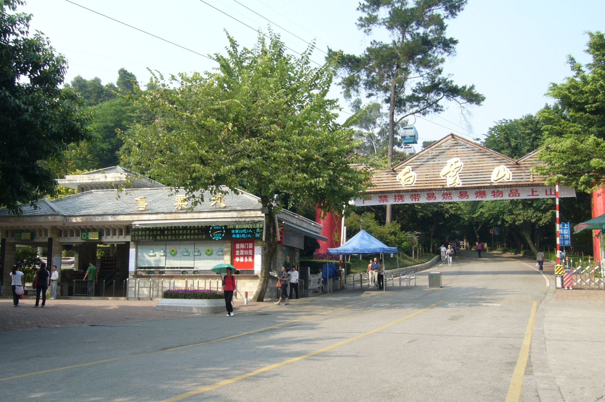 The White Cloud Mountain(Baiyun Mountain),Guangzhou(Canton)